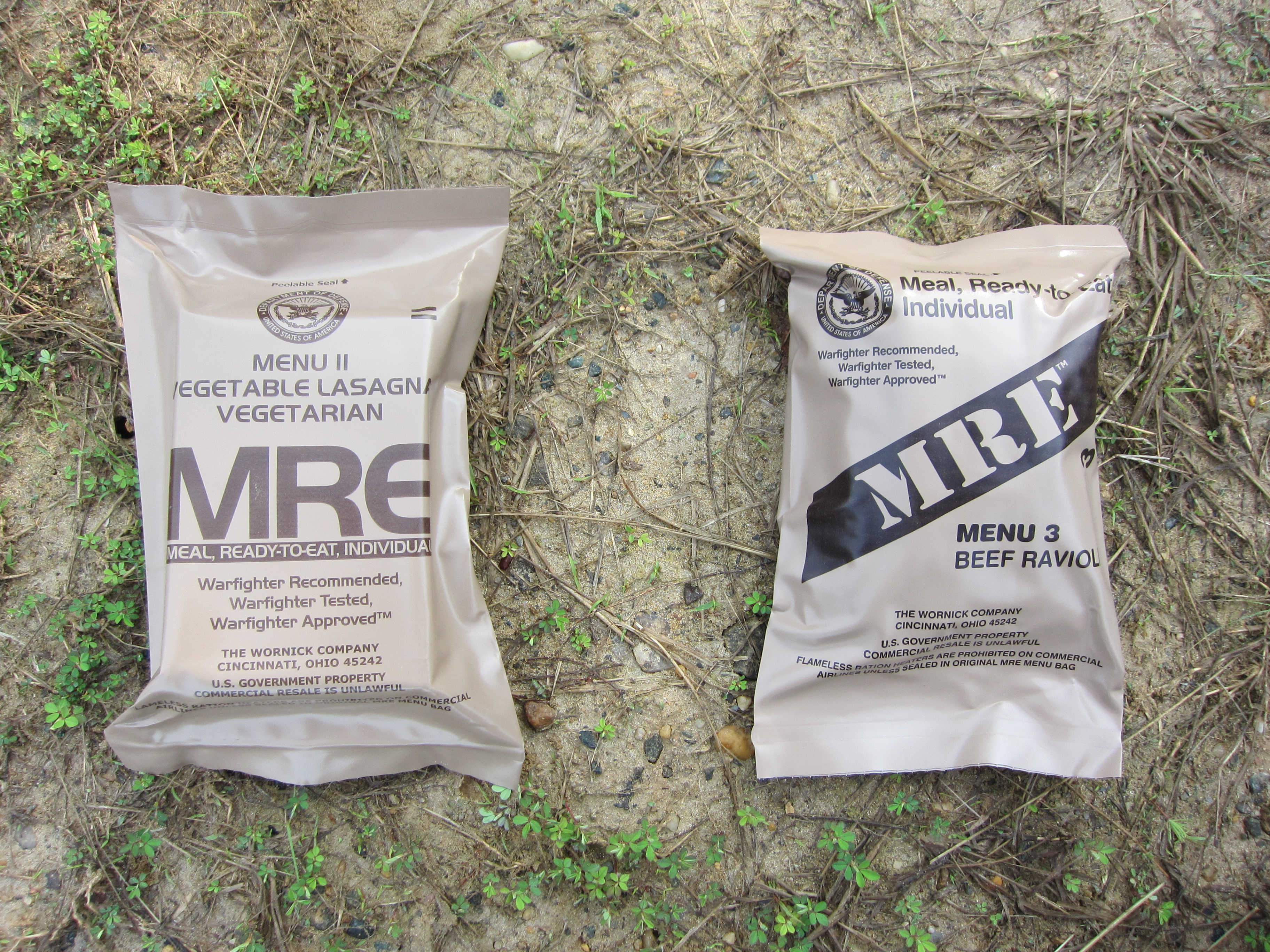 Meal, Ready-To-Eat, Individual (MRE) Vegetable Lasagna Vegetarian (menu 2) and Beef Ravioli (menu 3) at Marine Corps Base Quantico, Virginia.